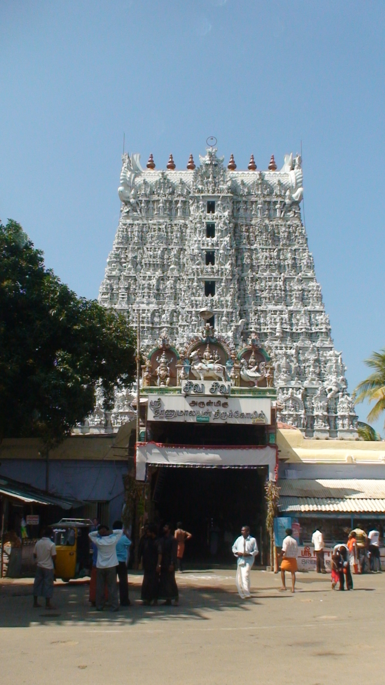 Suchindram temple